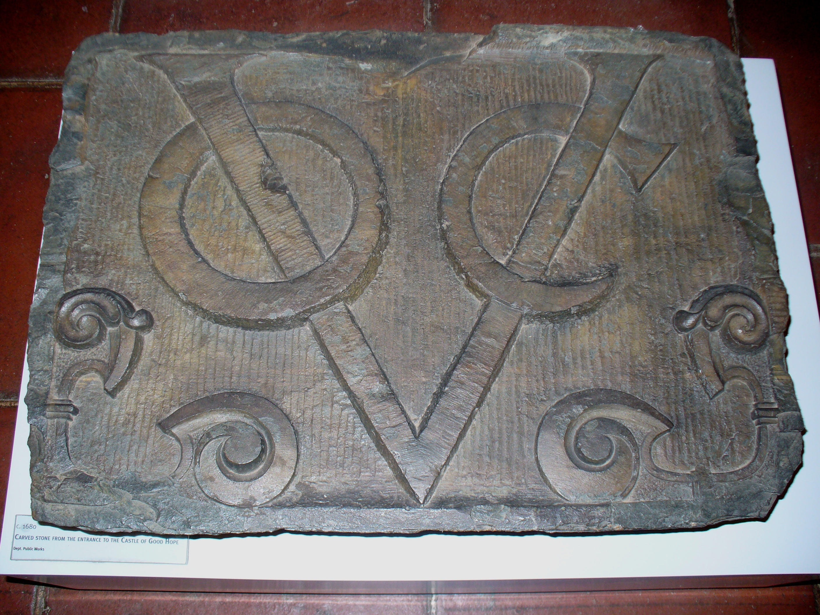 Emblem carved above the enterance to Cape Town Castle Circa 1680